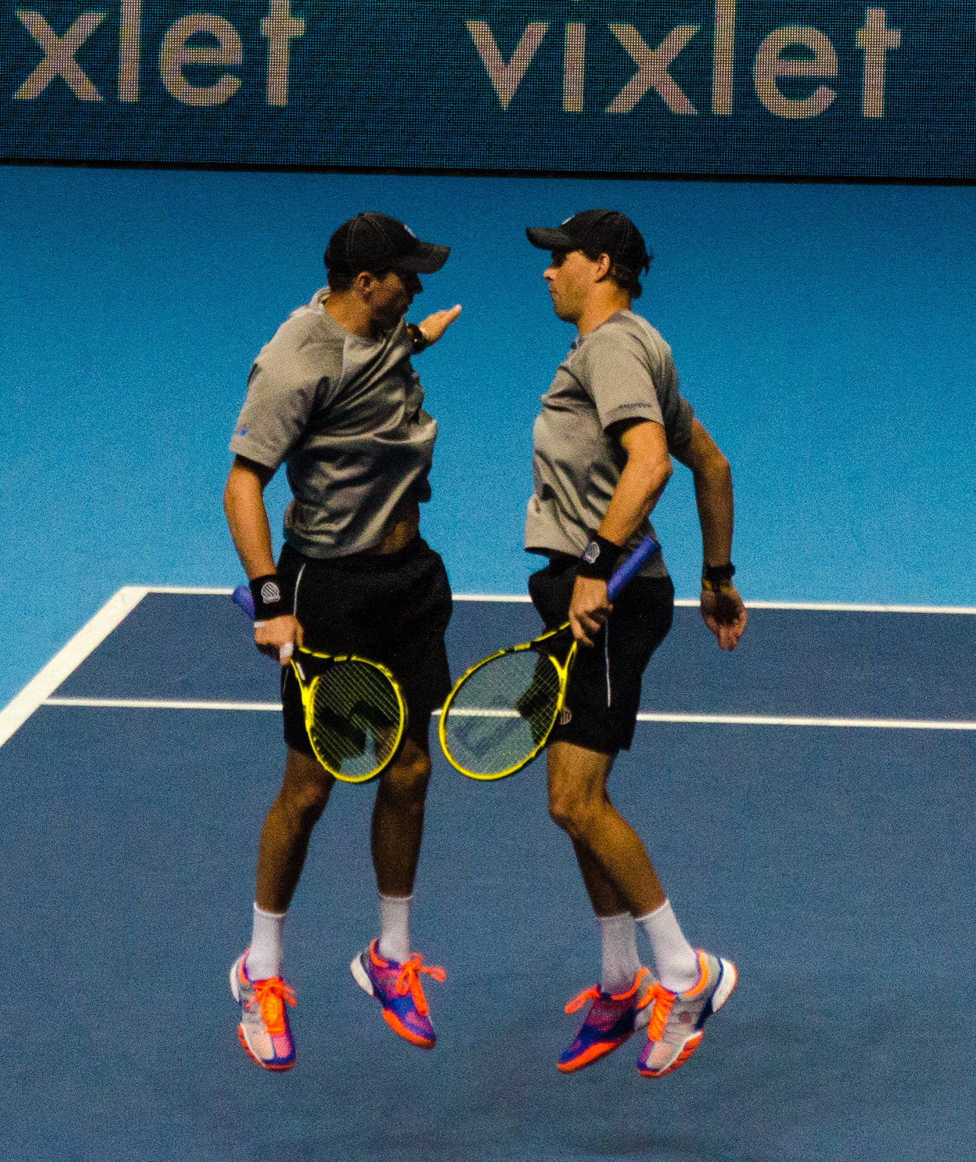 This is a photo of a tennis game at the ATP World Tour Finals.